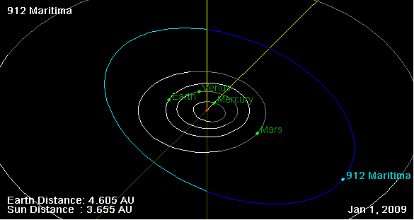 912 Maritima orbit, and his position on 01 Jan 2009 (NASA Orbit Viewer applet)